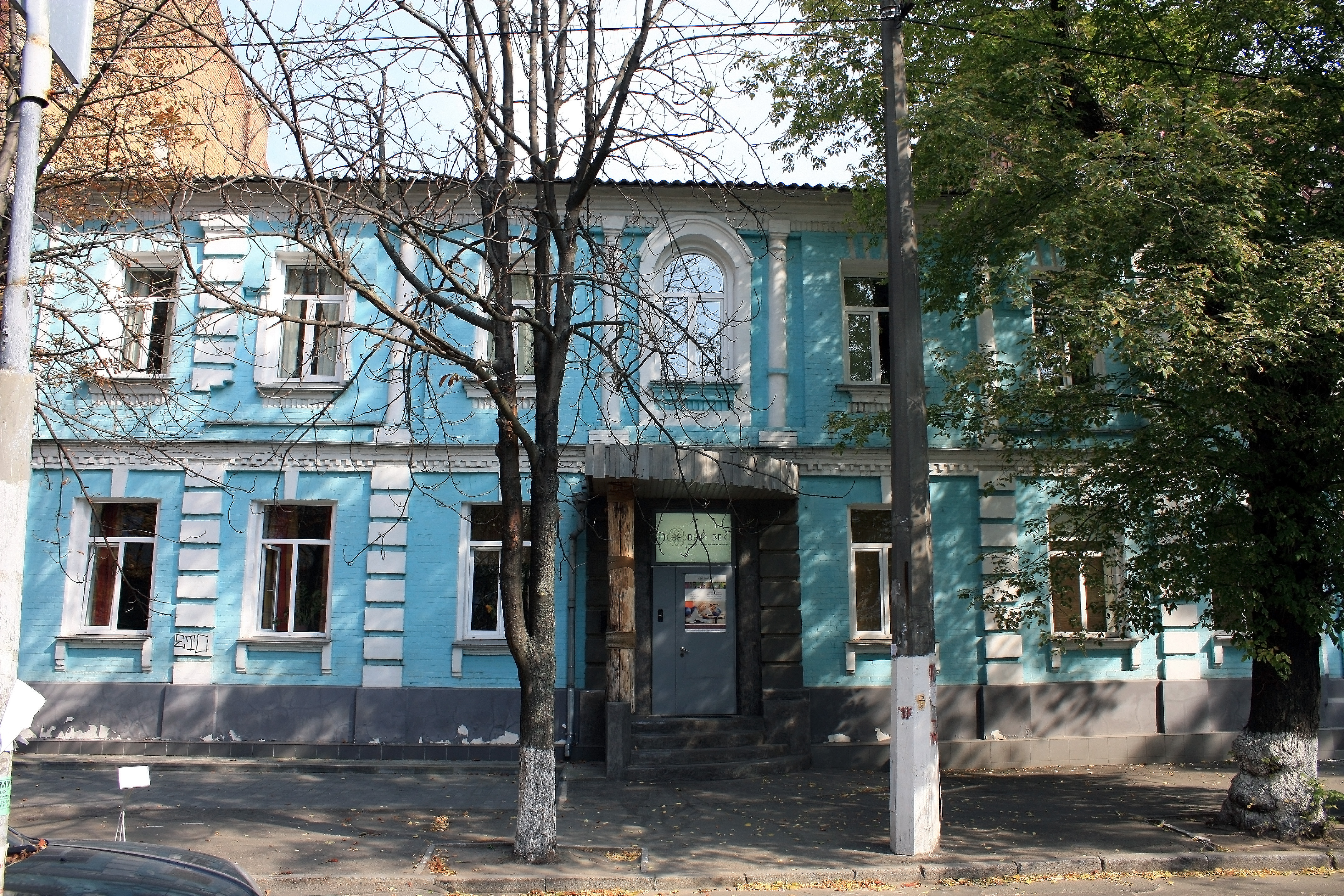 Kyiv, Behterevskiy lane, 6